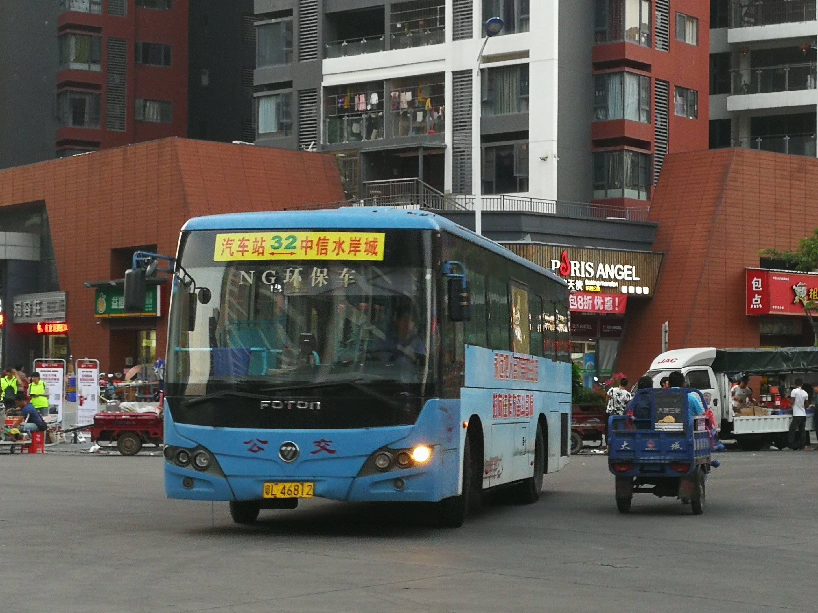 A Foton BJ6901C6MCB-2 bus which is powered by liquid natural gas and enlisting on HZCI Bus Co,ltd Route 32. The plate number of this bus is "粤L•46812" . The photo was taken at the intersection of Xuri 1st Road & Dongsheng 1st Road.